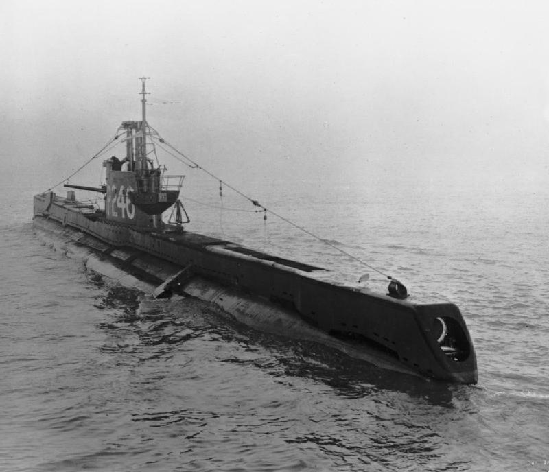 British S class submarine HMSM STATESMAN.